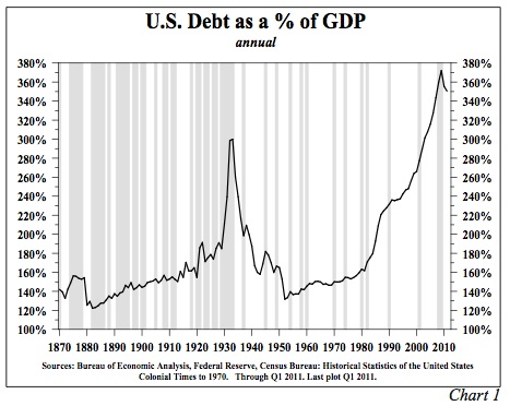 Aggregate public and private debt combined over time.